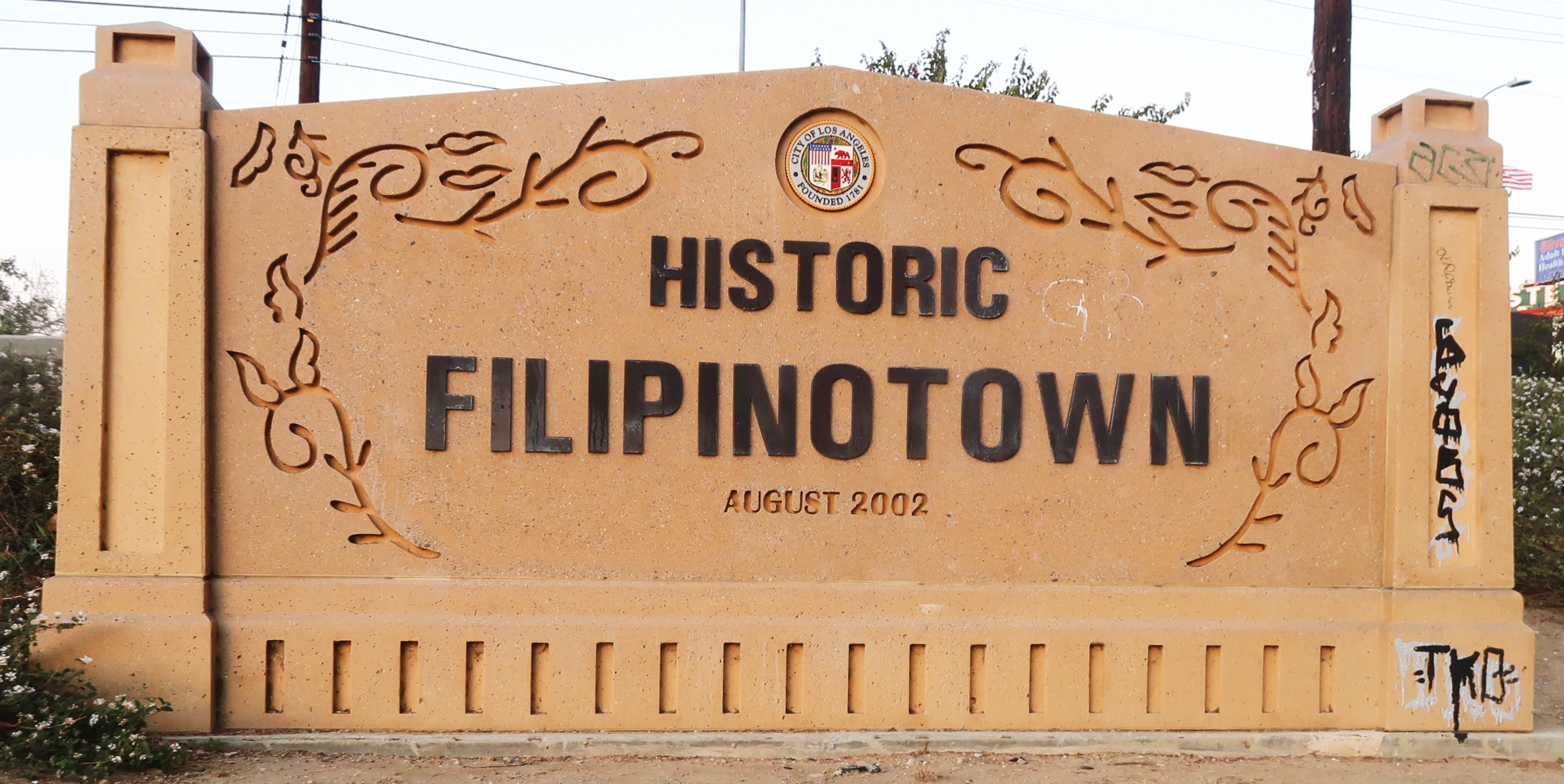 Historic Filipinotown western gateway that is located off the 101 freeway on the corner of Temple Street and Silverlake Boulevard.